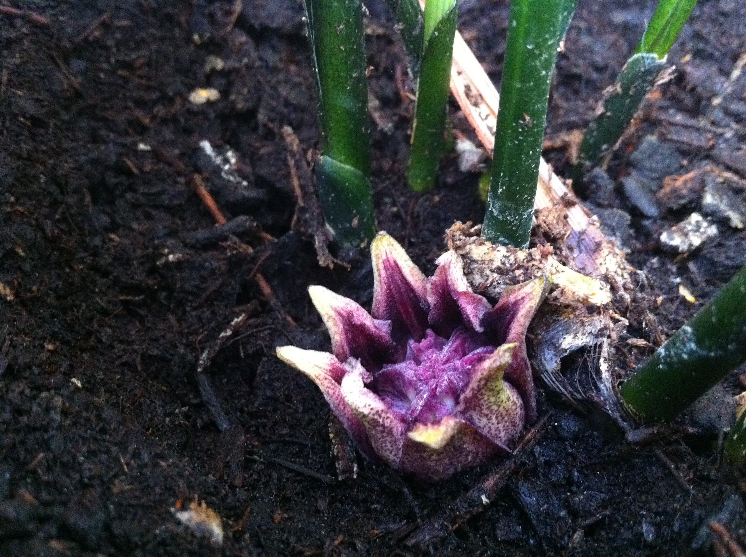 Flower of Aspidistra sp. emerging at ground level at base of leaves.